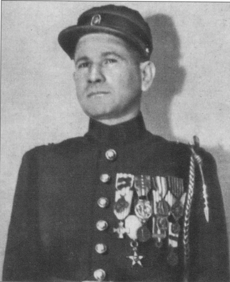 Josef Škalda (* 1894 - 1942) was during the first World War a member of the Czechoslovak legions in France. During the WW II he was personality in anti-Nazi resistance in the Protectorate of Bohemia and Moravia. He was known primarily as the founder and one of the first publishers of the illegal magazine "V boj". He has been sentenced to death and executed in Berlin-Plötzensee. Photo before the 1942.